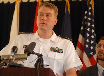 Navy Lt. Cmdr Brian Mizer spoke during a press briefing that followed the guilty verdict of Salim Ahmed Handan Aug. 6. Mizer is a member of Hamdan’s defense team. – JTF Guantanamo photo by Army Sgt. 1st Class Vaughn R. Larson